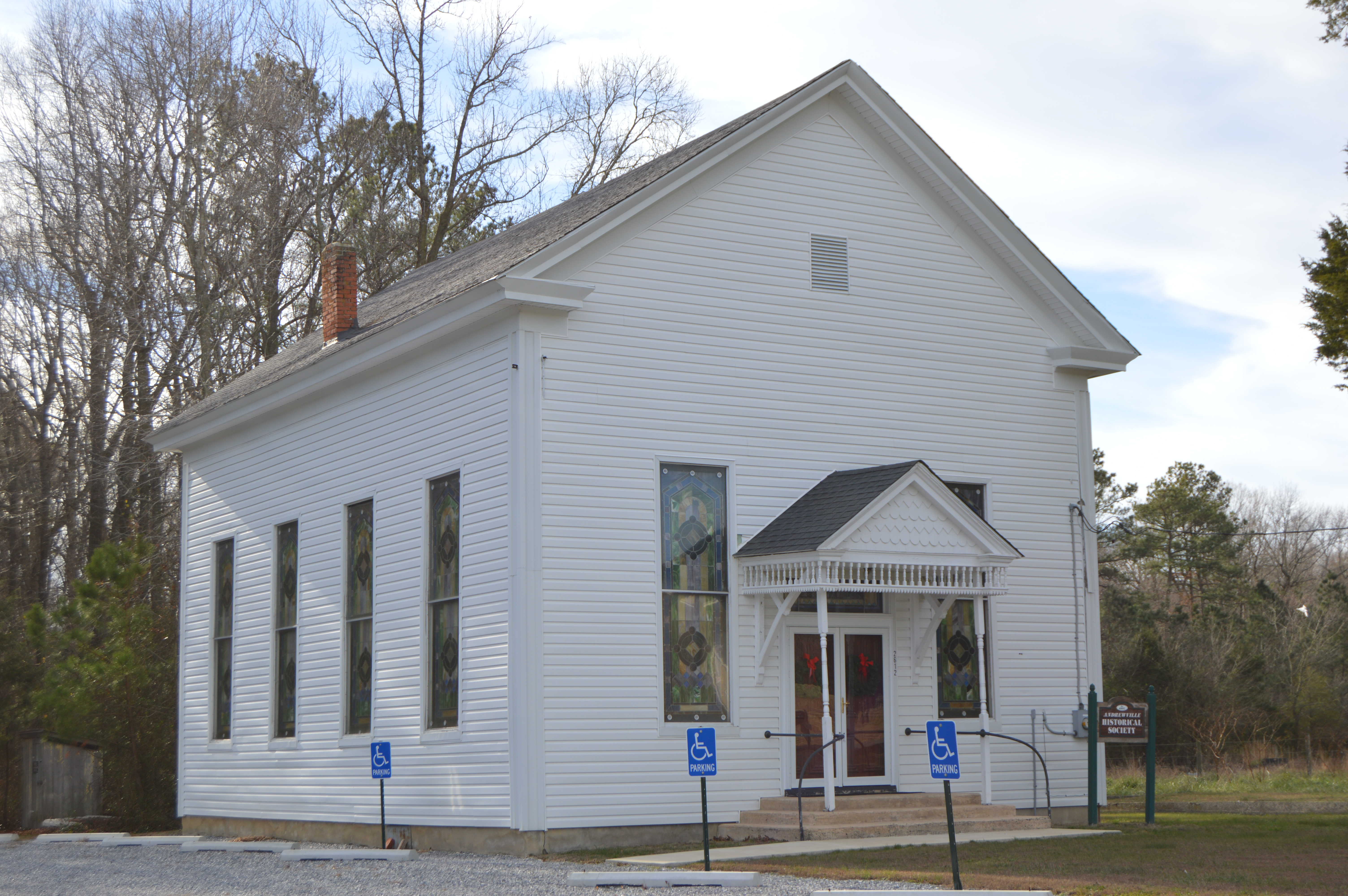 Front and eastern side of the former Bethel Methodist Protestant Church (now the local historical society), located on Andrewville Road at Andrewville, Delaware, United States. Built in 1871, it is listed on the National Register of Historic Places.